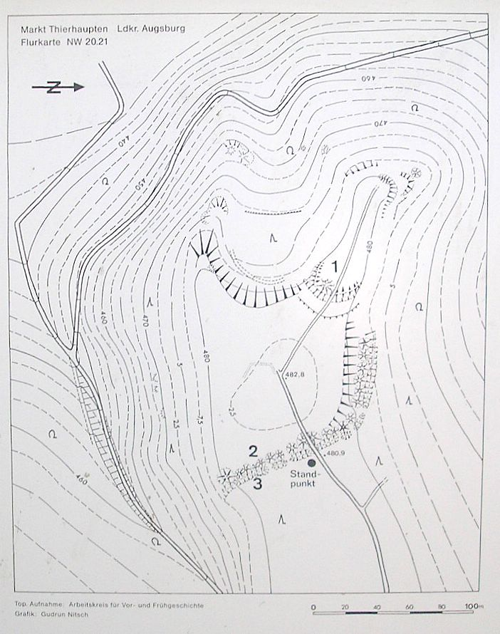 Early Middle Ages hill fort "Eselsberg" near Thierhaupten (Landkreis Augsburg, Bavaria, Germany). Plan (Information board at the hill fort)